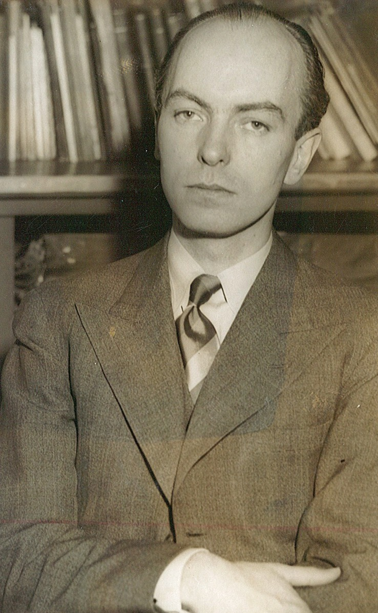 Norwegian humanist and literature historian Anders Platou Wyller (1903–1940).